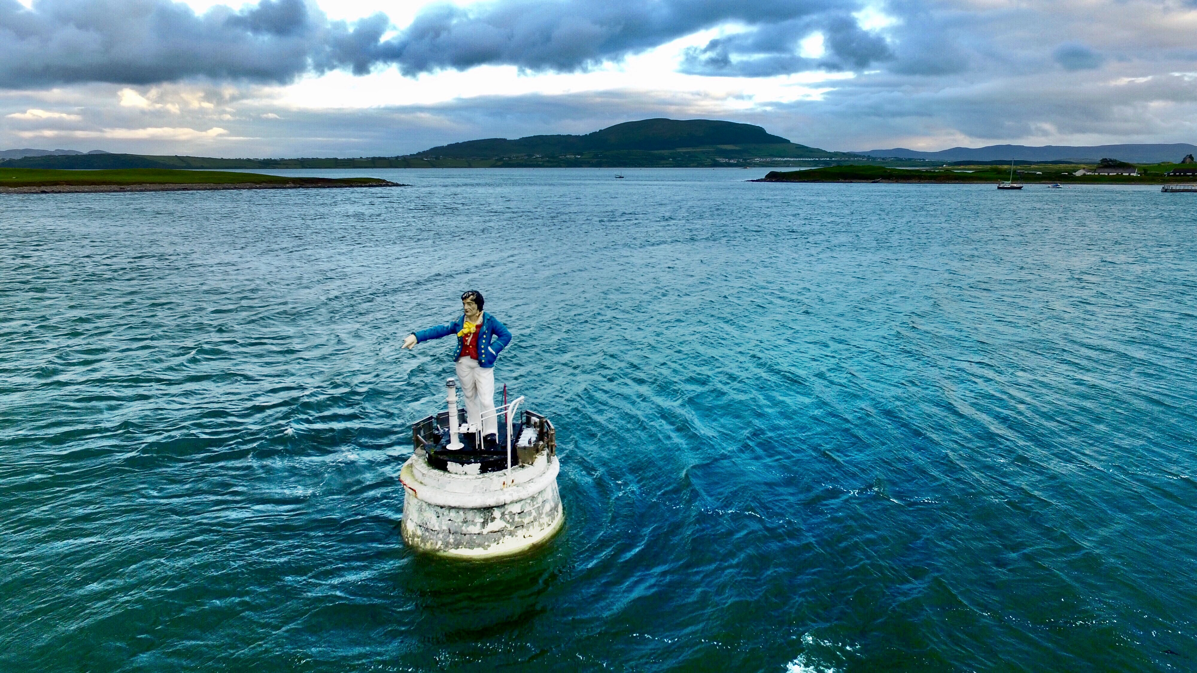 County Sligo, Metal Man Beacon. Wikidata has entry Q33093092 with data related to this item.